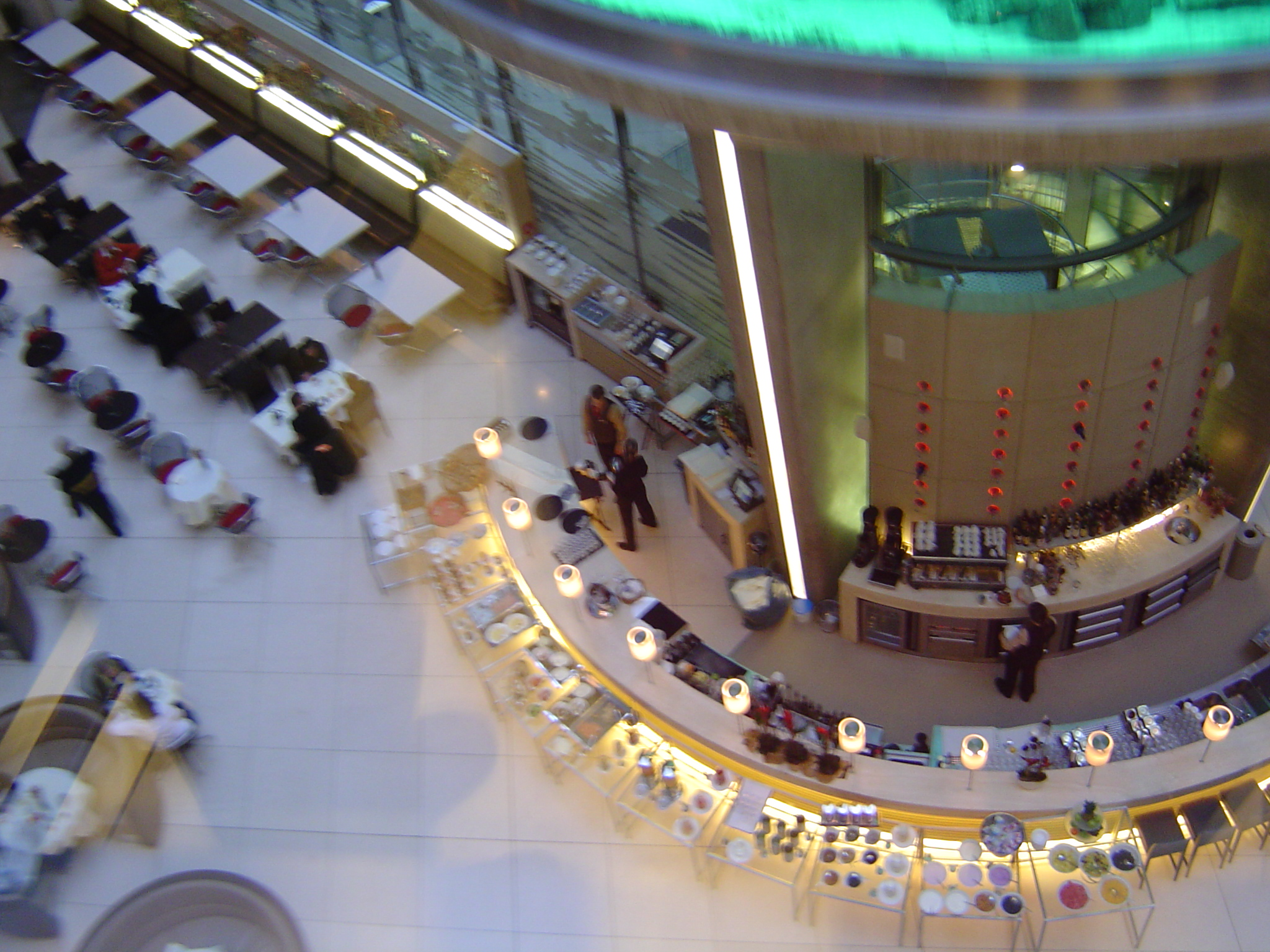 Click here to see where this photo was taken. By courtesy of BeeLoop SL (the Mapware & Mobility Solutions Company).